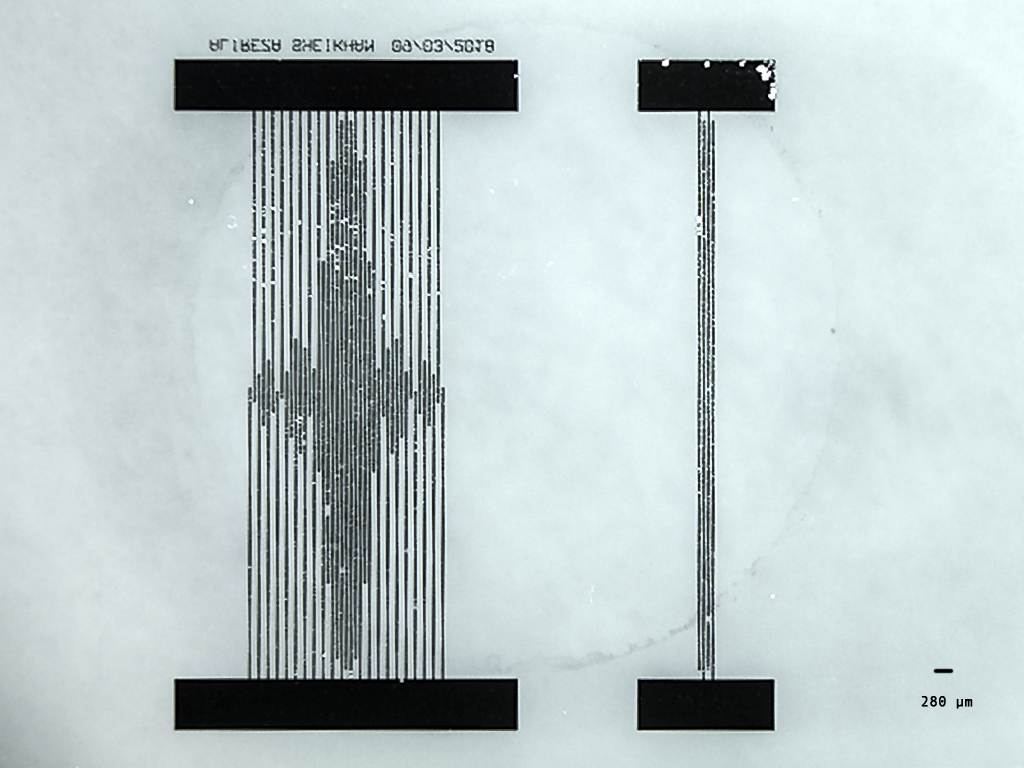 Picture: A band pass filter implemented on piezoelectric material